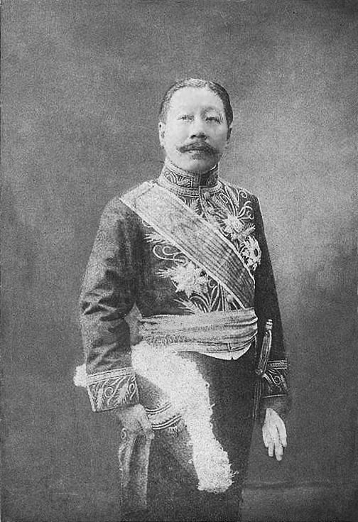 Hu Weide (1863 - 1933), Chinese politicians, Premier of Beiyang Government